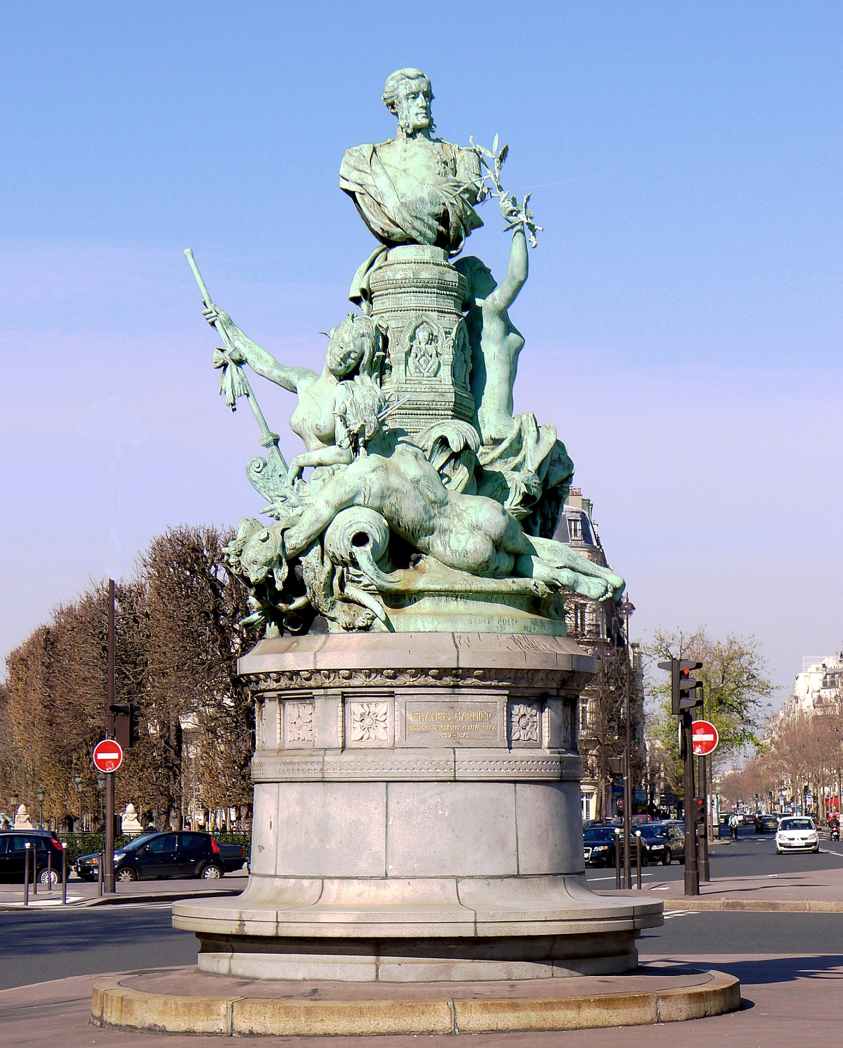 Francis Garnier's bust - Paris.